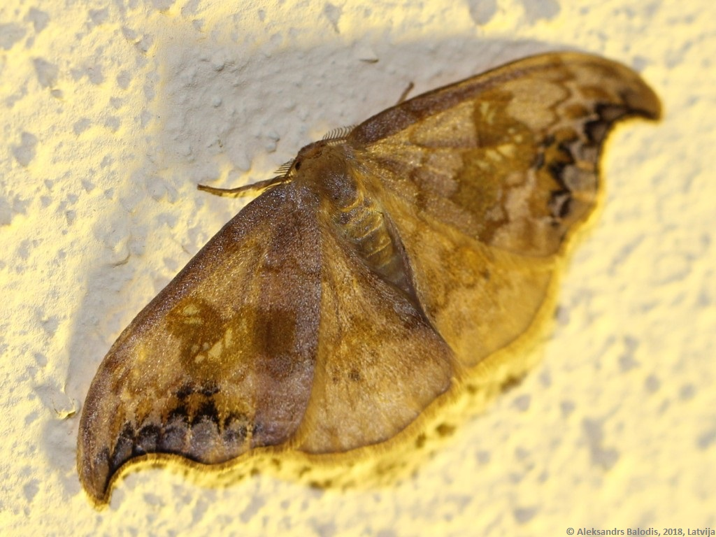 Sabra harpagula